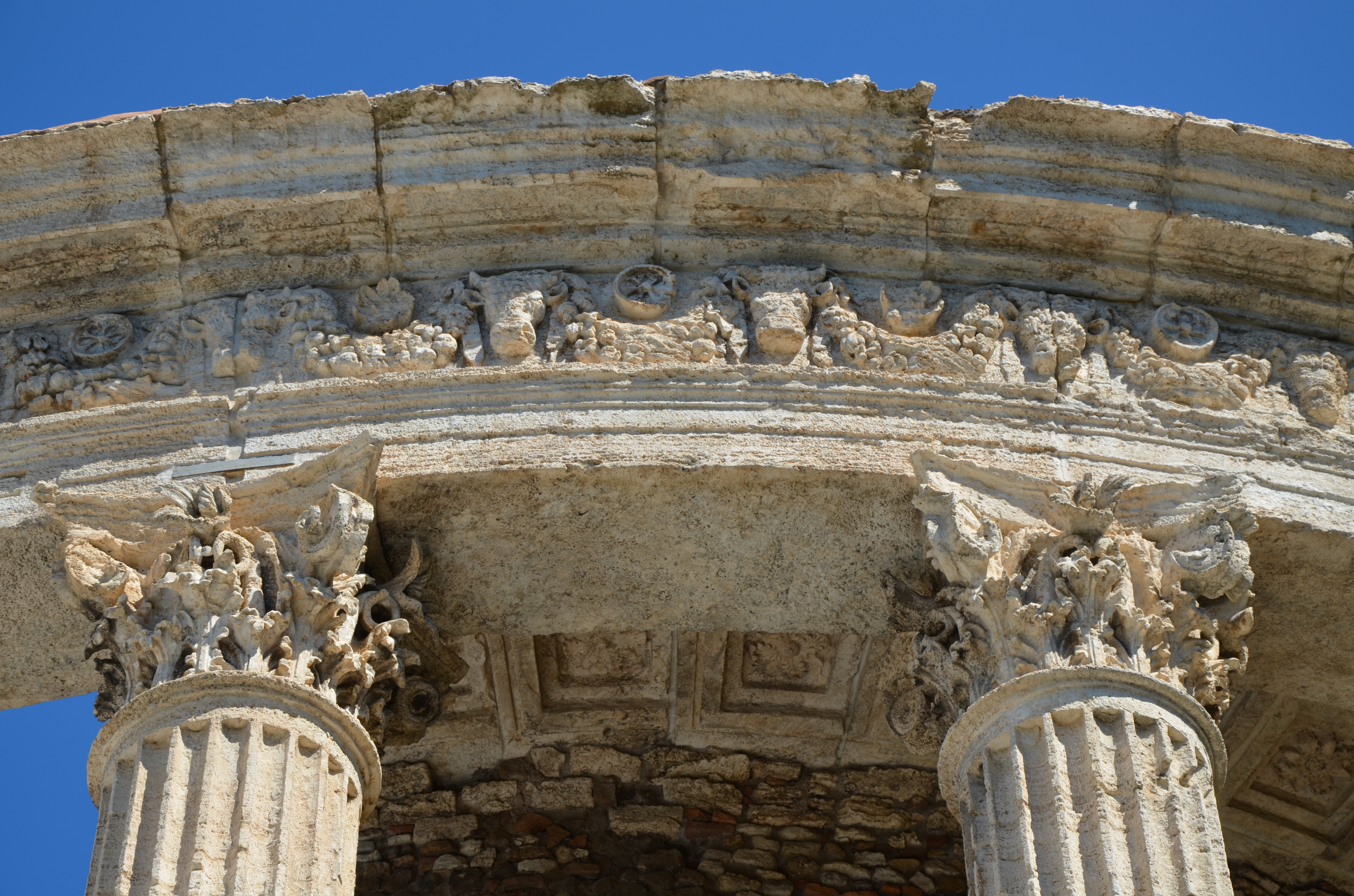 The Tivoli Order's Corintinan Capital has two rows of Acanthus (ornament) and its abacus is decorated with oversize fleuron (architectural) in the form of hibiscus flowers with pronounced spiral pistils. The column flutes have flat tops. The frieze exhibits fruit swag (motif) suspended between bucrania. Above each swag is a rosette (design). The cornice does not have modillions.